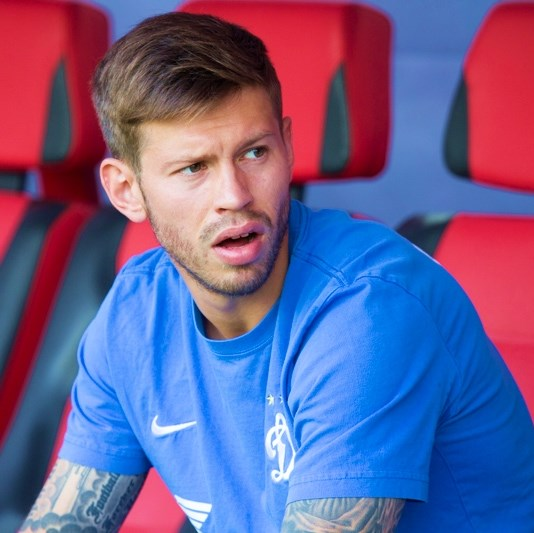 Fyodor Smolov 2014